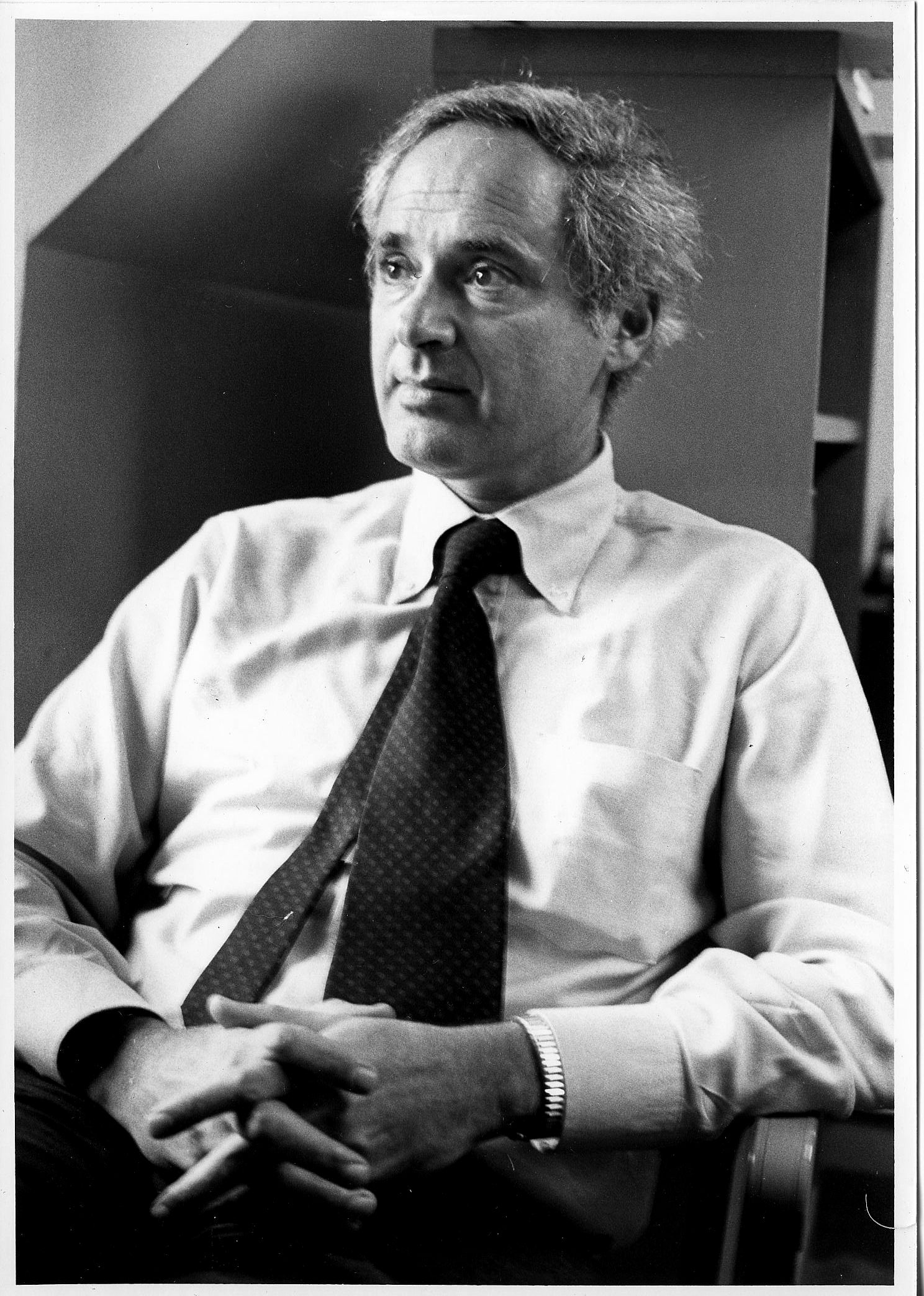 This is a photo of Herbert Scarf, Yale University.